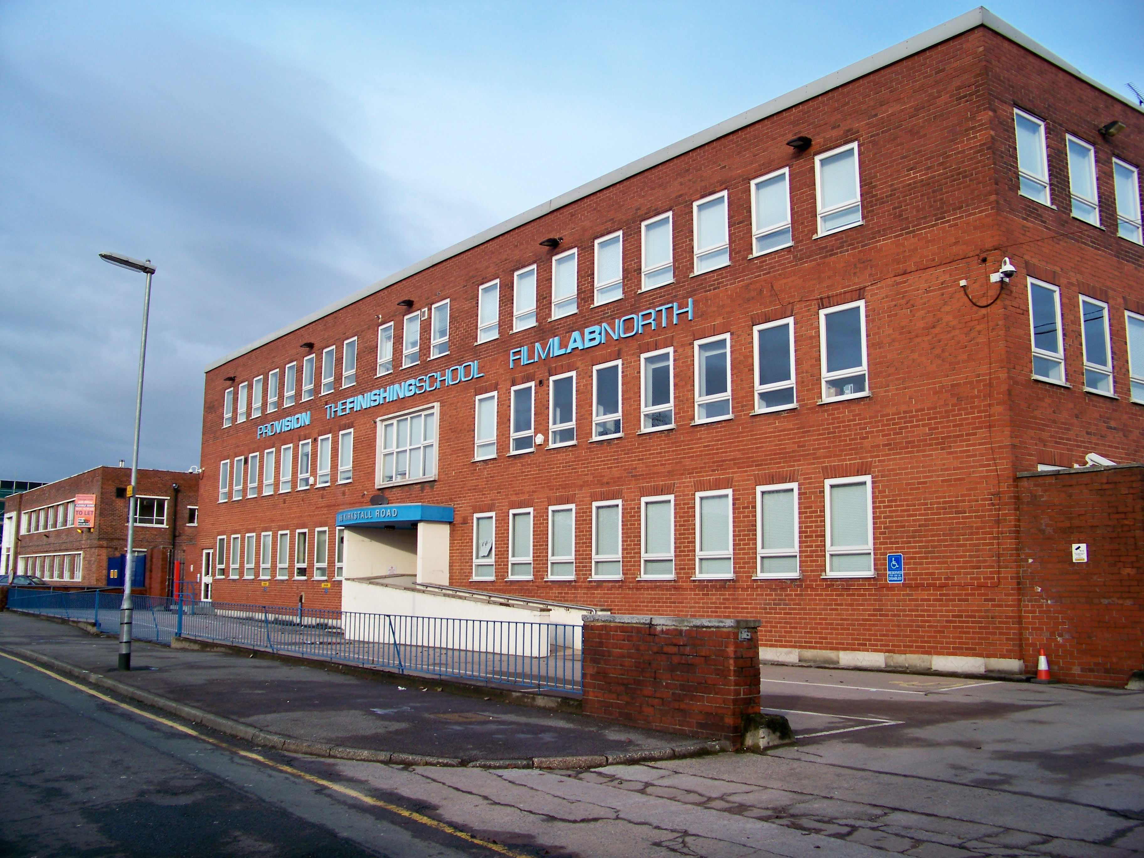 The Finishing School, studios run by Pro Vision and Film Lab North situated adjacent to the Yorkshire Television Leeds Studios, Kirkstall Road, Leeds. Taken midday on Thursday the 31st of December 2009.